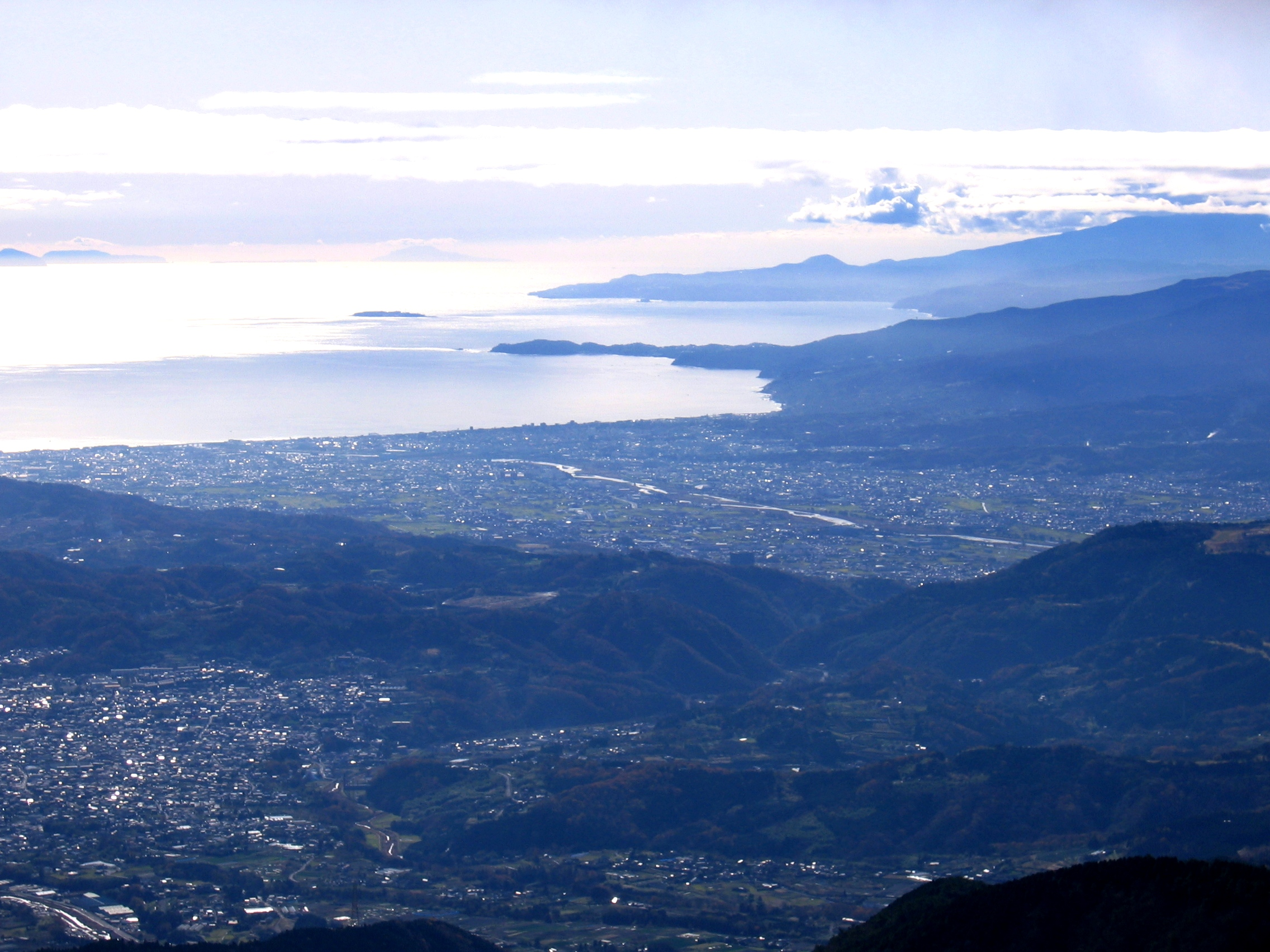 Odawara City and Izu Islands from Mount Shindainichi, Tanzawa Mountains, Kanagawa, Japan.